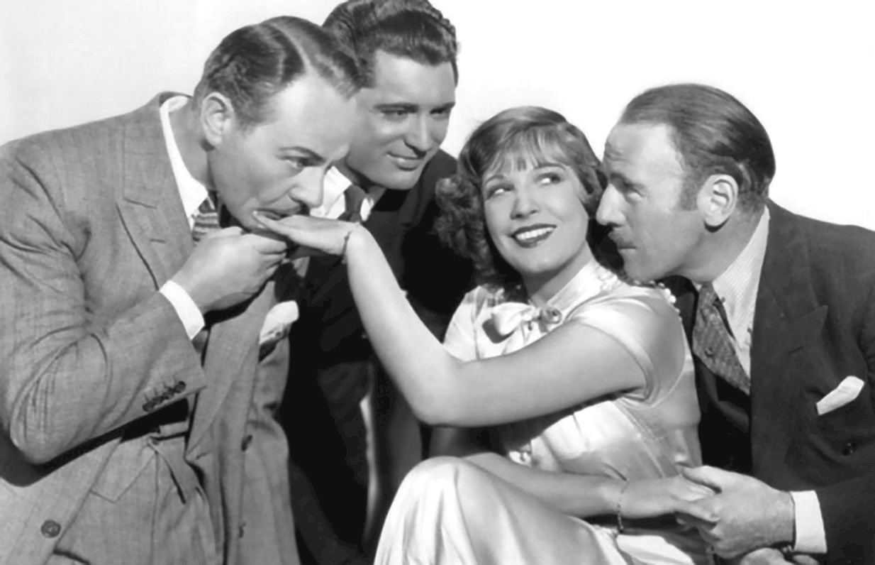 Photo from the 1932 film This is the Night. Garry Grant's first feature film role. Note that the uploaded photo is a better, larger copy of the one scanned from the magazine. A search was done for renewal in periodicals for the years 1959 and 1960. There were no listings for the title "Screenland". There's no evidence of continuing copyright on this magazine.